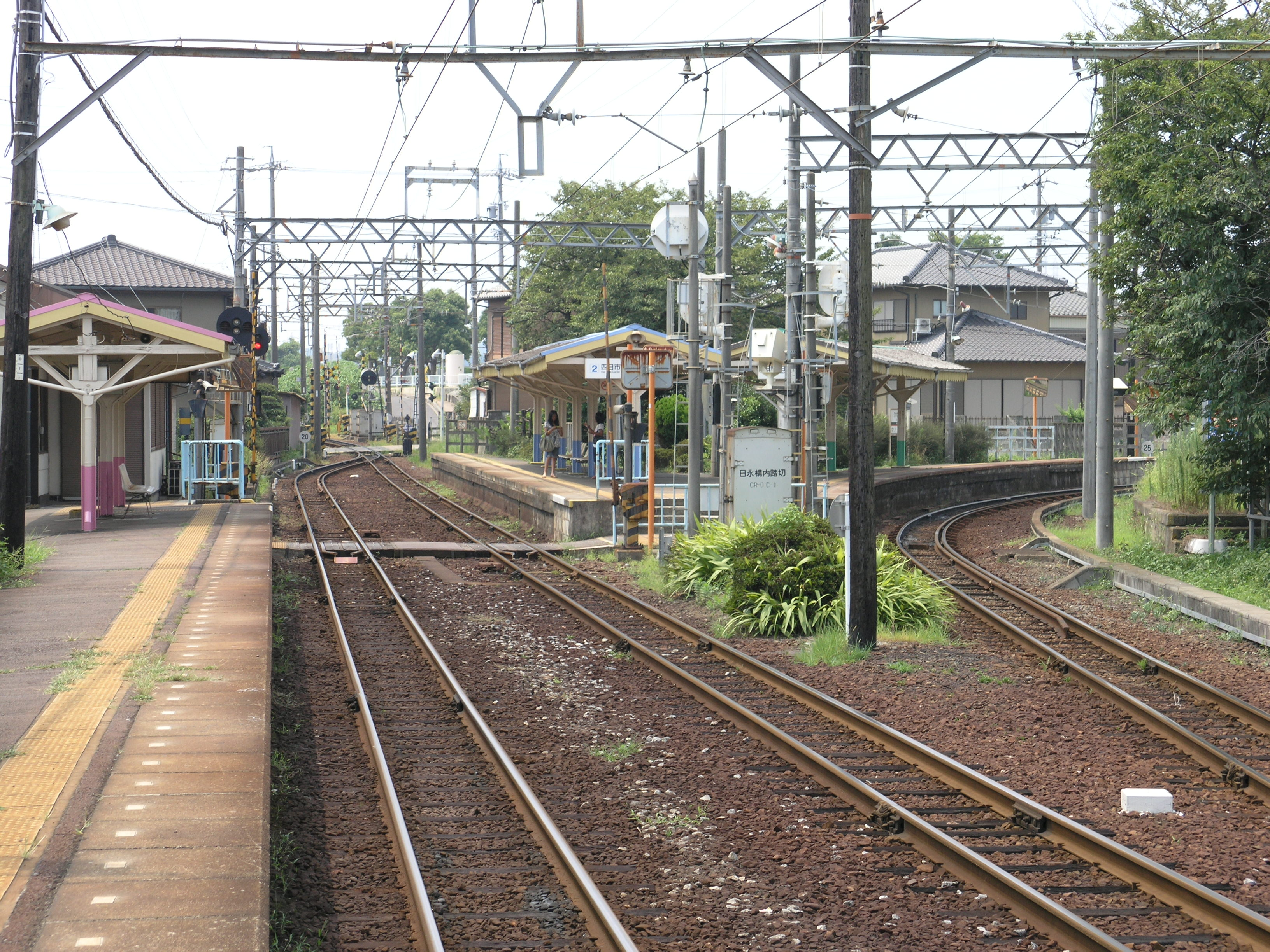 Kinki Nippon Railway Hinaga Station